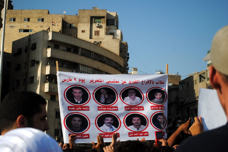 Banner containing pictures of people arrested during the 9th of March sit-in that was violently dispersed by the army